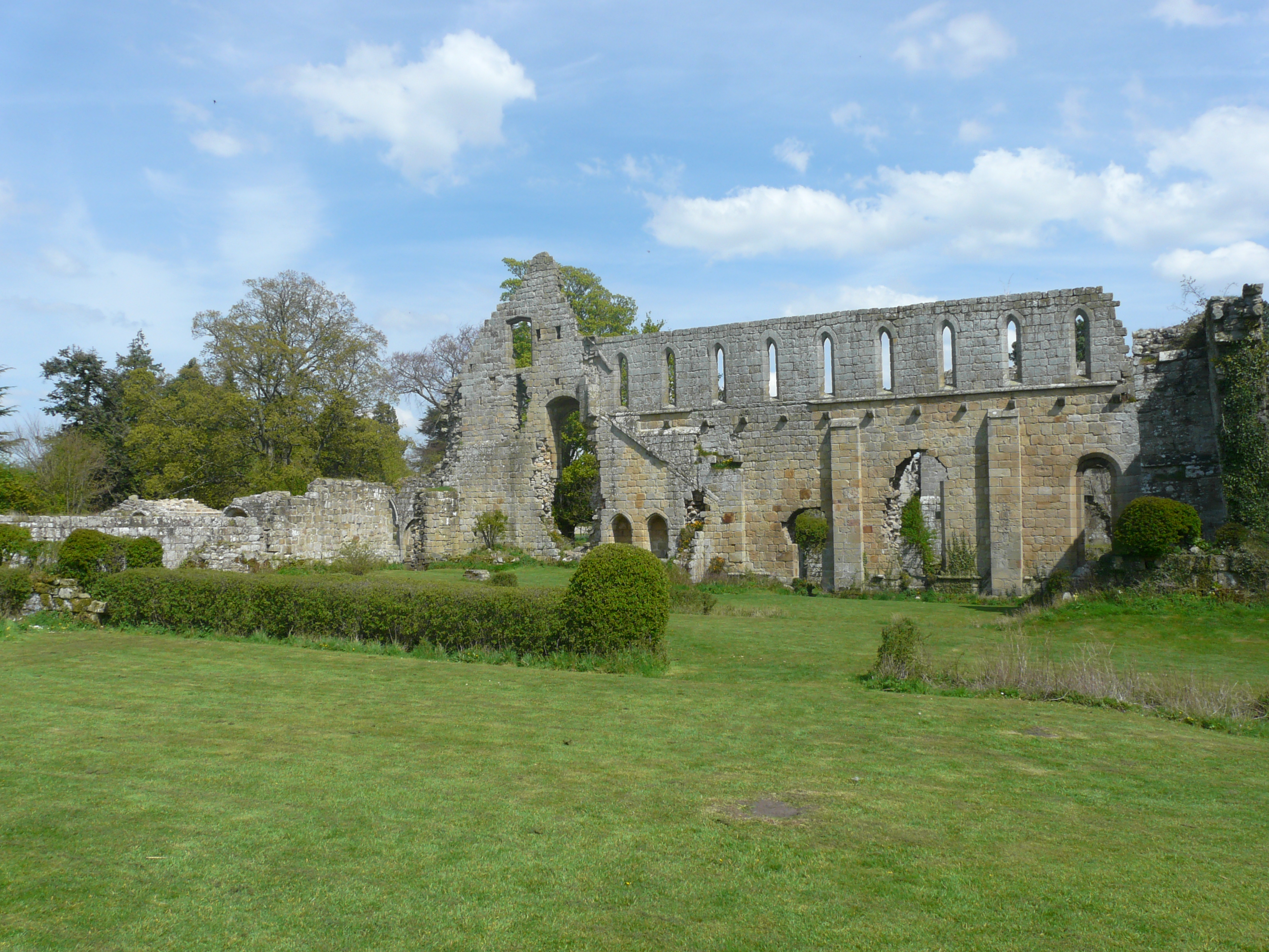 Jervaulx Abbey Wikidata has entry Q748927 with data related to this item.